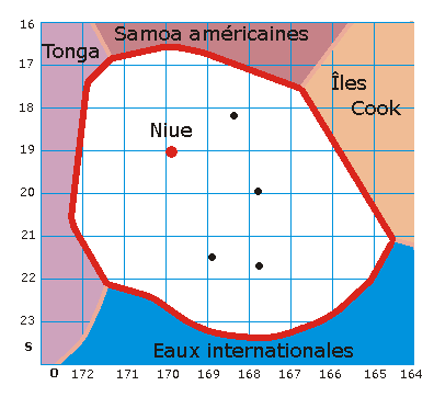 Niue's ocean area